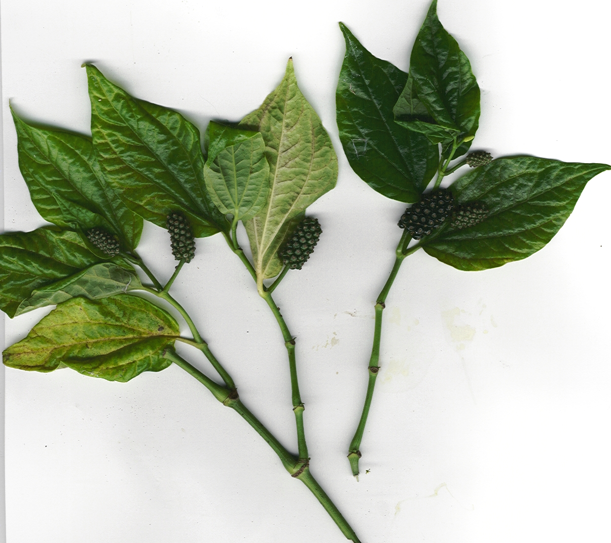 Piper lolot (branch with fruits). Location: Maui, Pukalani